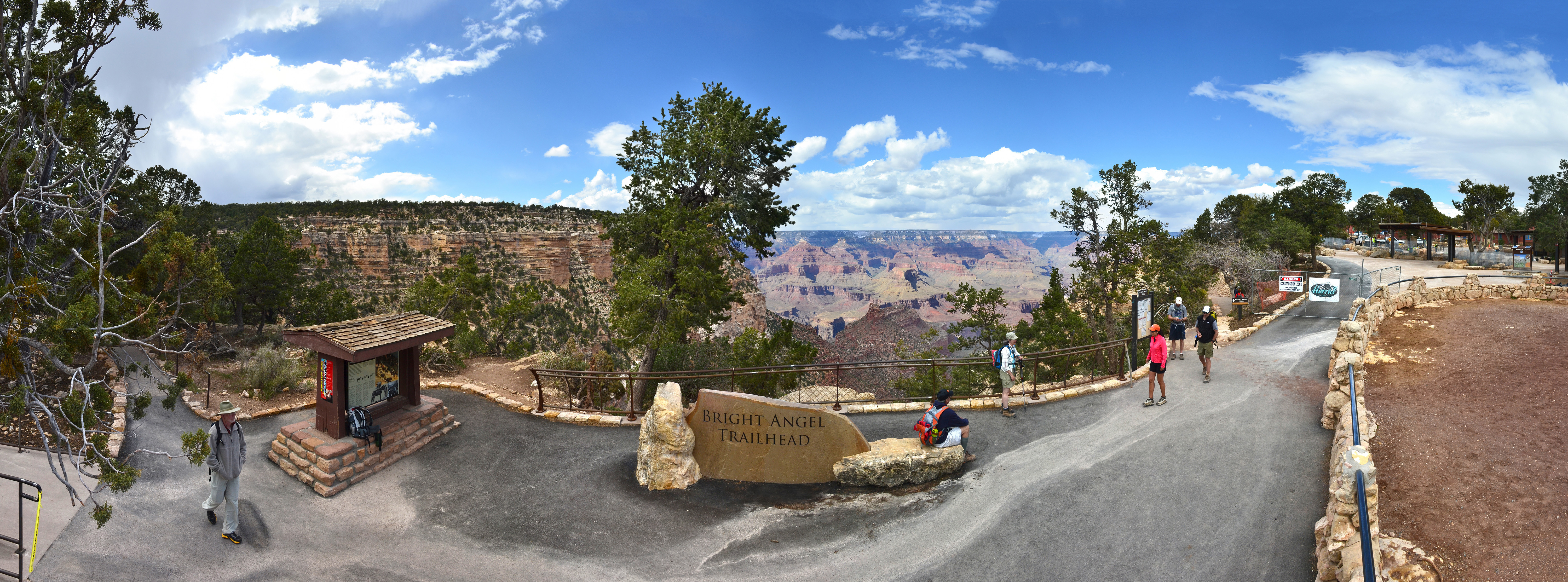 Photo taken May, 8, 2013. Grand Canyon National Park and the Grand Canyon Association will dedicate the renovated trailhead for Bright Angel Trail on Saturday, May 18, 2013. The Bright Angel Trail is one of the oldest and best known trails in the National Park system. This renovation encompasses a 3.5 acre area at and surrounding the Bright Angel Trailhead and is focused on creating an accessible and comfortable area for visitors that complements existing historic buildings including the Bright Angel Lodge and Rim Cabins designed by Grand Canyon architect Mary E. J. Colter. Having not had much significant development in the past 100 years, many people have had a hard time finding the trailhead and there was no convenient or comfortable place for people to sit to either enjoy the view or prepare for hikes. The renovation will greatly improve conditions at and around the trailhead, providing a much better experience for park visitors. NPS photo by Michael Quinn. Read the news release here: .